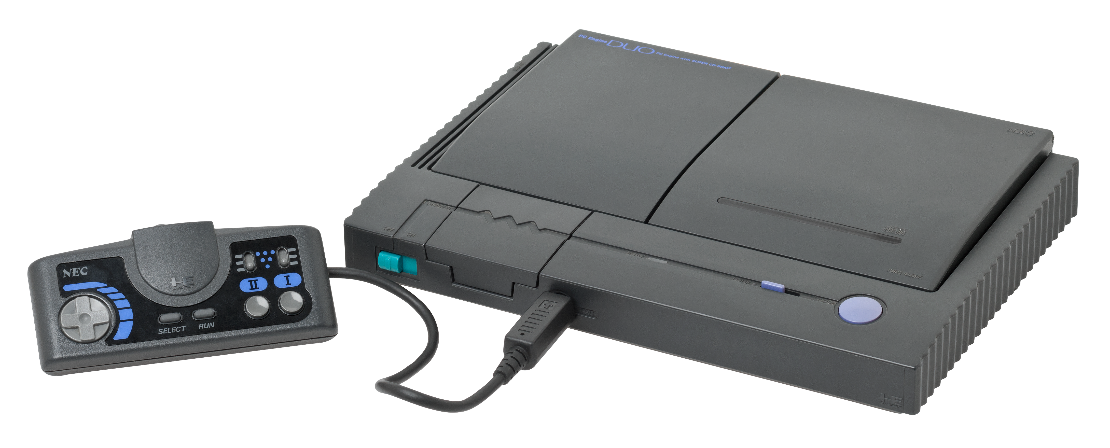 The PC Engine Duo, a system that is the incorporation of the PC Engine and the CD add-on.